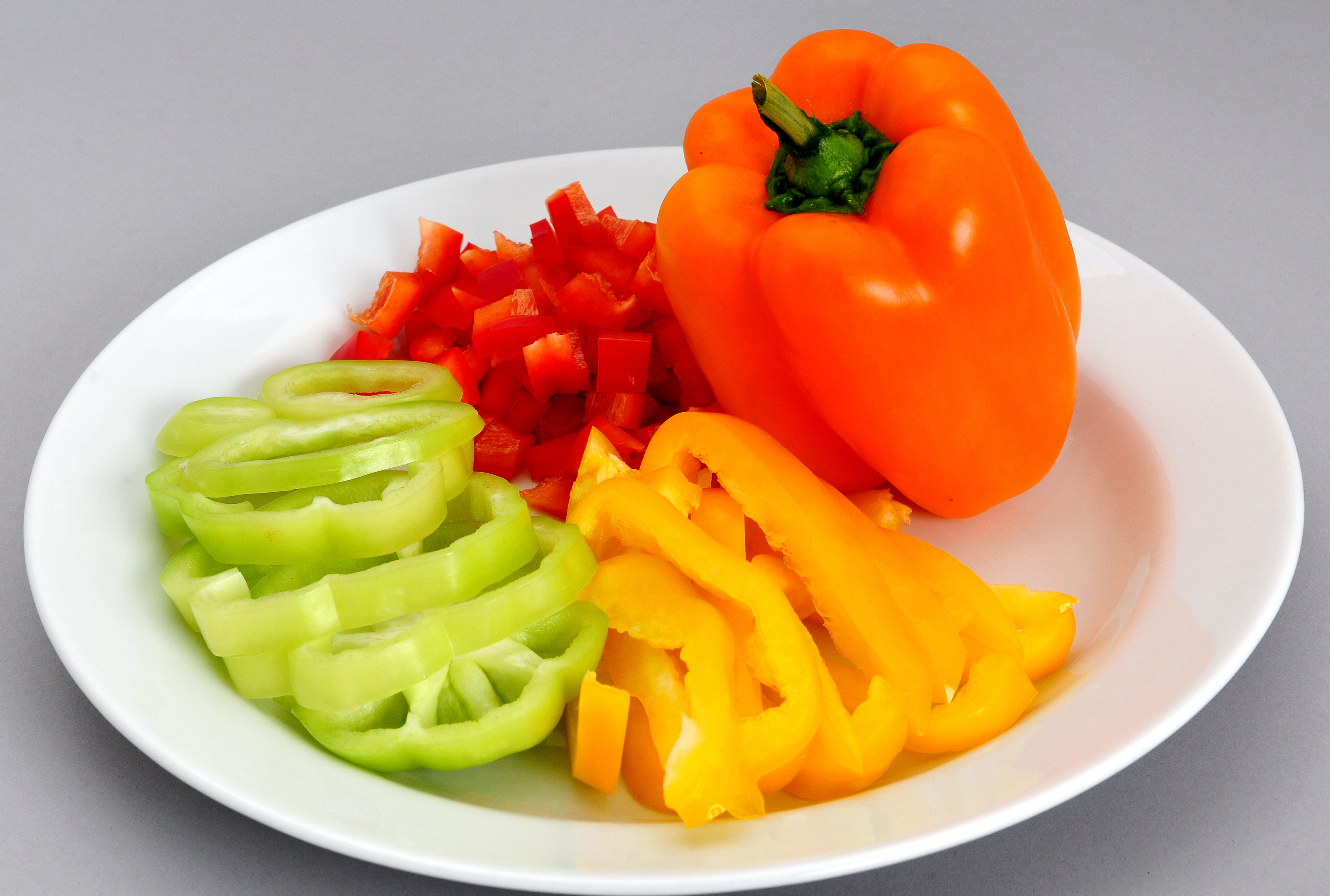 Some pepper cut in different ways (red: diced, green: horizonatally sliced, yellow: vertically sliced, orange: intact pepper). Photographed during the meet-up of the "food and drinks"-editorial team of the german-language Wikipedia in Vienna 2013.